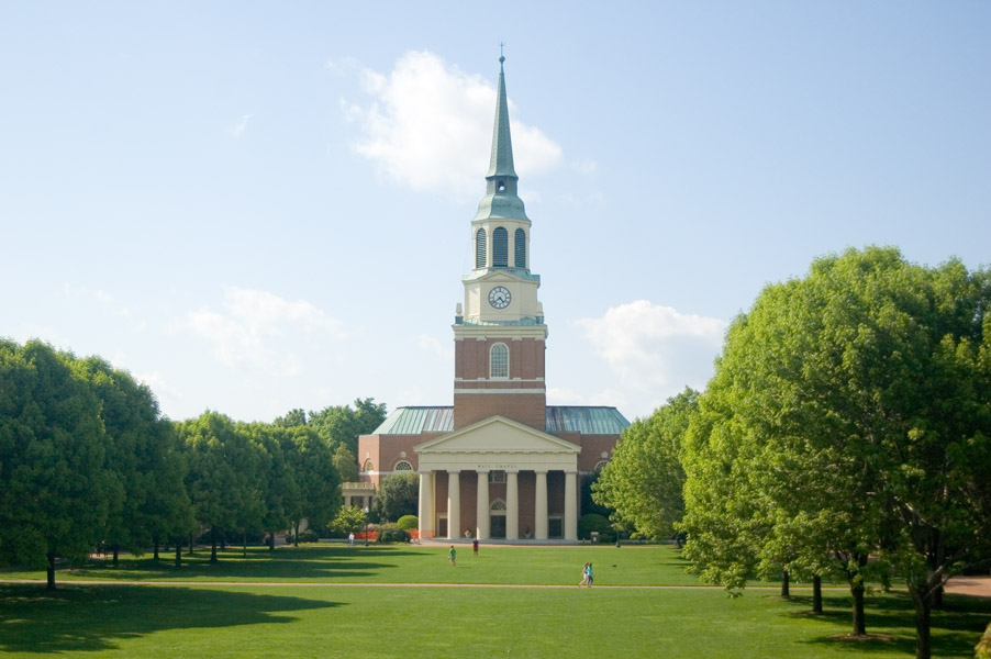 This picture was taken on April 27, 2006. One may notice that the windows at the top of Wait Chapel are missing. This is due to the cleaning that Wait Chapel was undergoing before graduation in May.